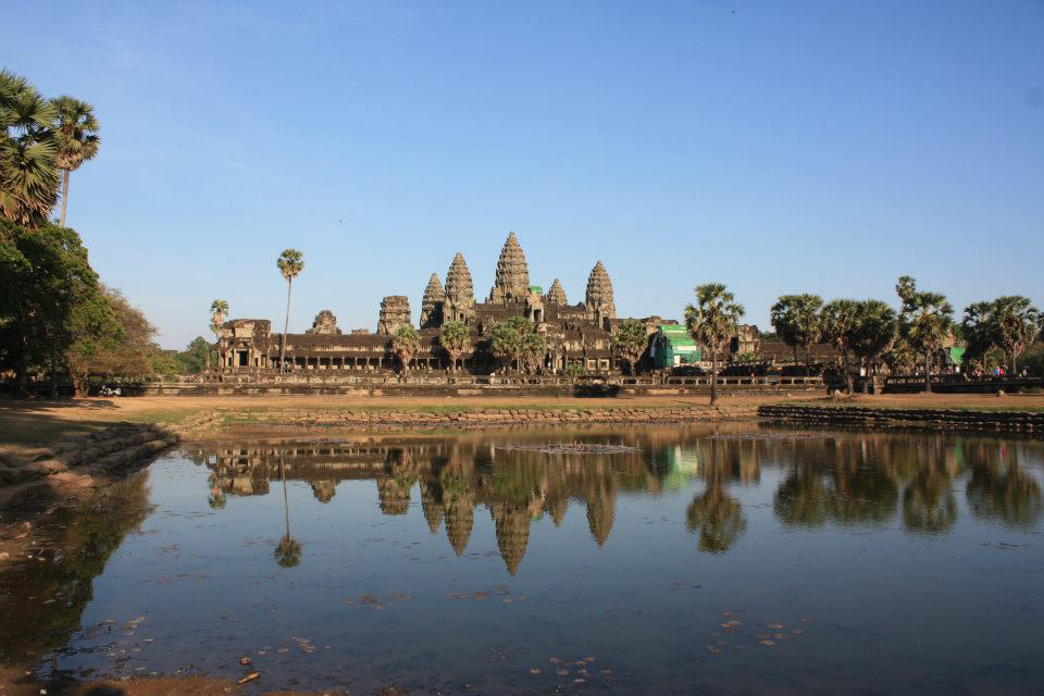 The popular Northwest view of reflective pond of Angkor Wat in the afternoon, Angkor Wat Temple, Siem Reap, Cambodia.